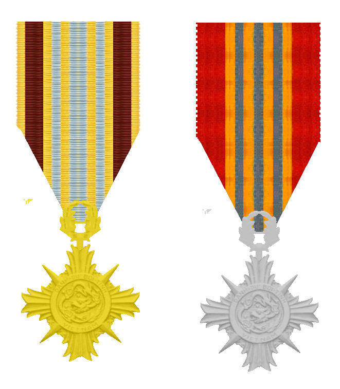 Armed Forces Honor Medal of South-Vietnam